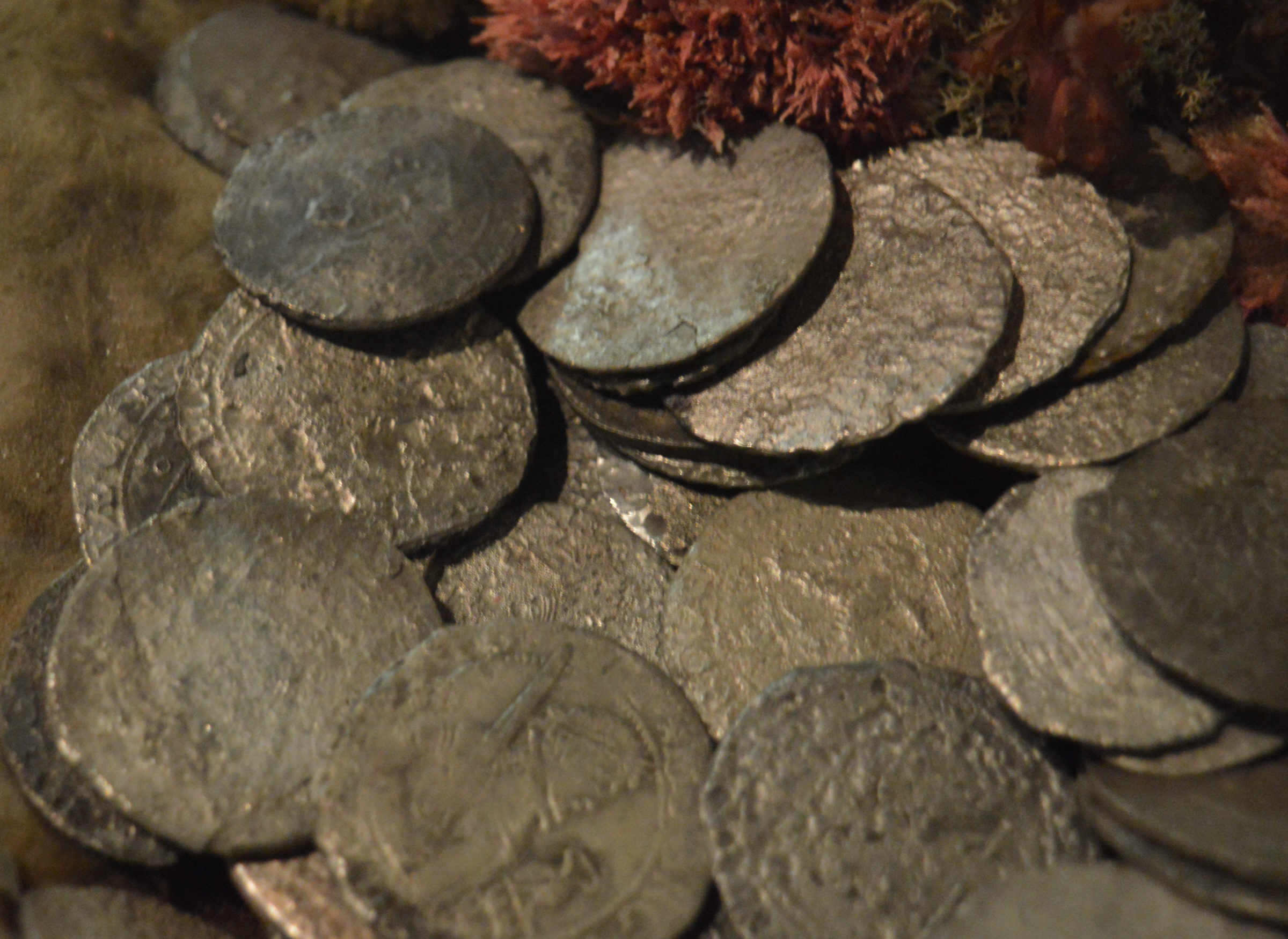 Rijksdaalder silver coins from the Batavia (1629) wreck. This part displayed in Geraldton Museum